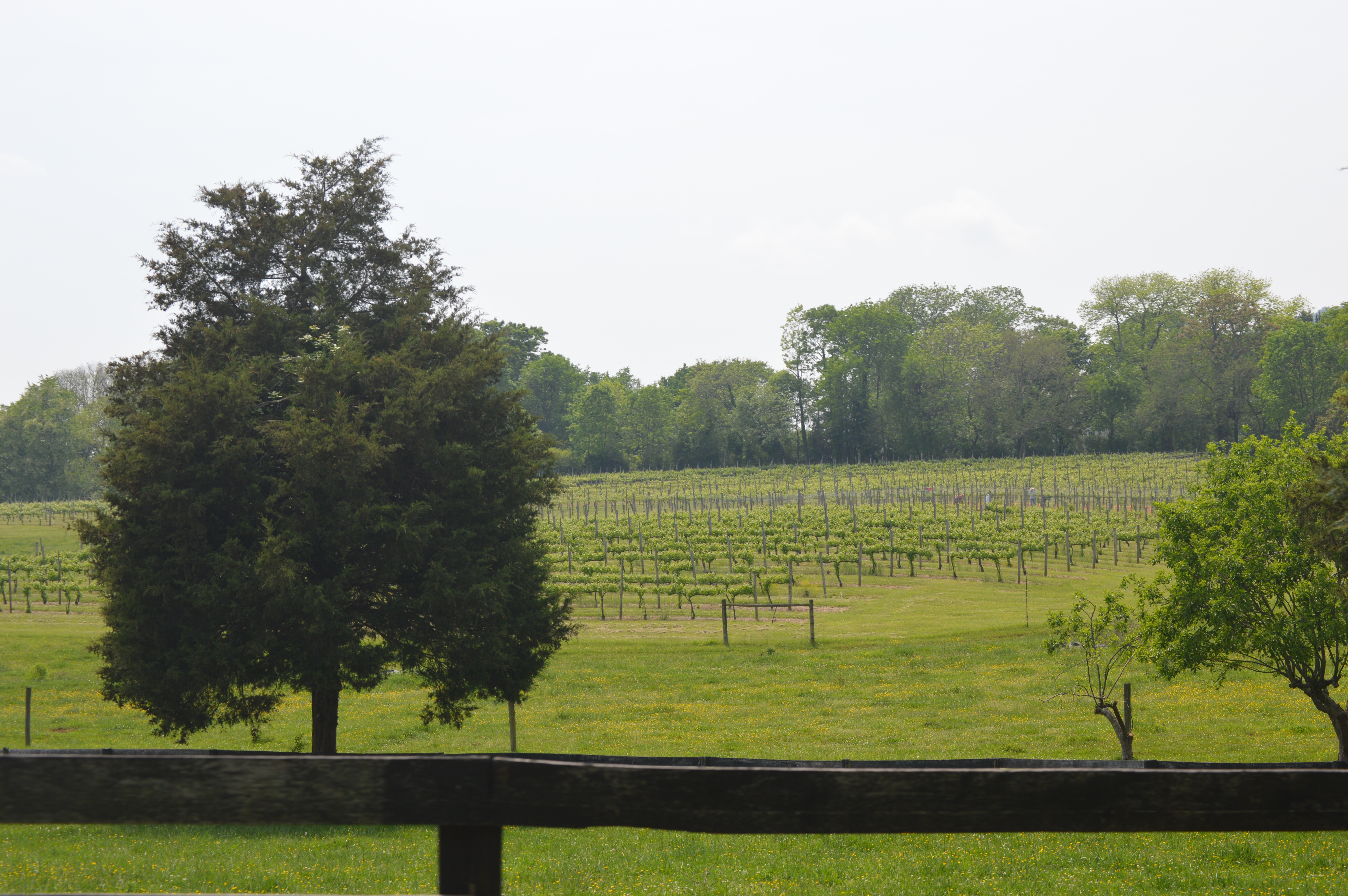 Grapevines at the Sunnyfields estate (the buildings are hidden behind the distant treeline), located on the southwestern side of State Route 53 southeast of Charlottesville in Albemarle County, Virginia, United States. The estate is listed on the National Register of Historic Places.